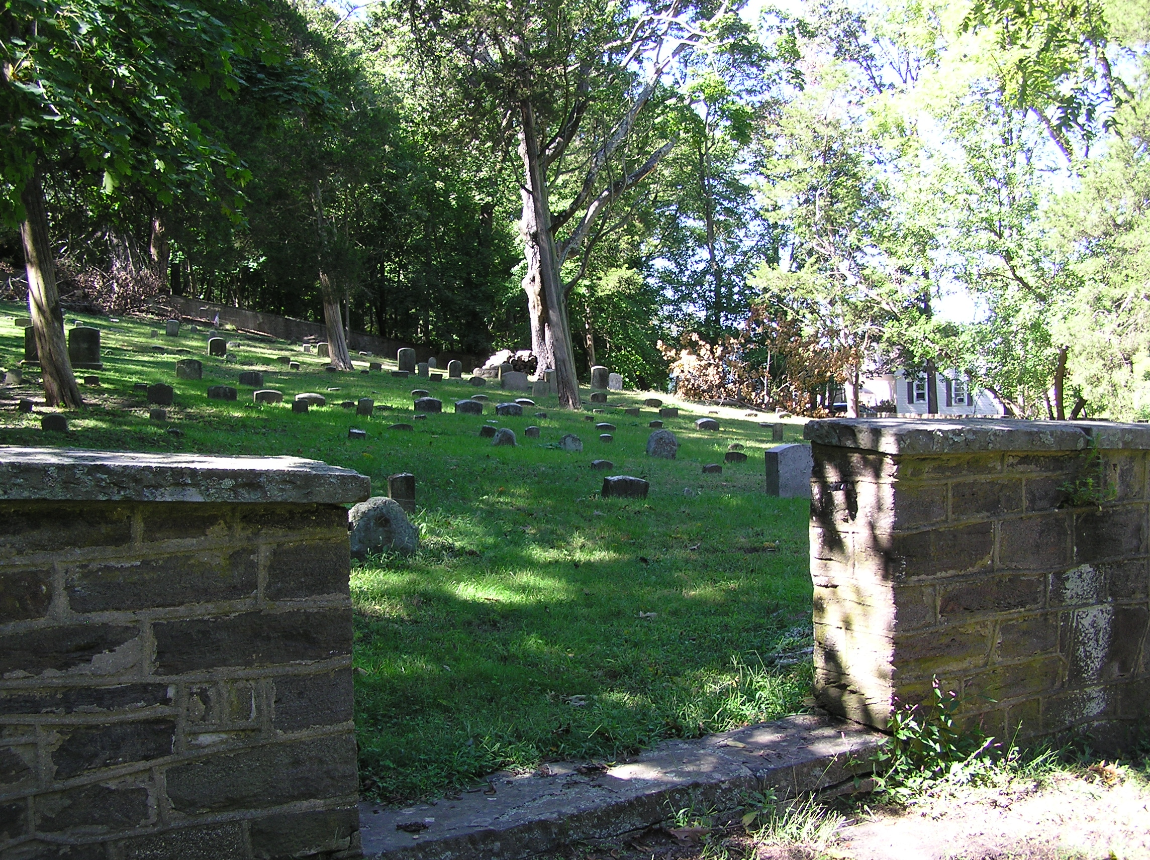 View of the burial ground from the Meetinghouse at Arney's Mount Friends Meetinghouse and Burial Ground, located at the intersection of Mount Holly-Juliustown and Pemberton-Arney's Mount Roads in Arney's Mount, NJ.